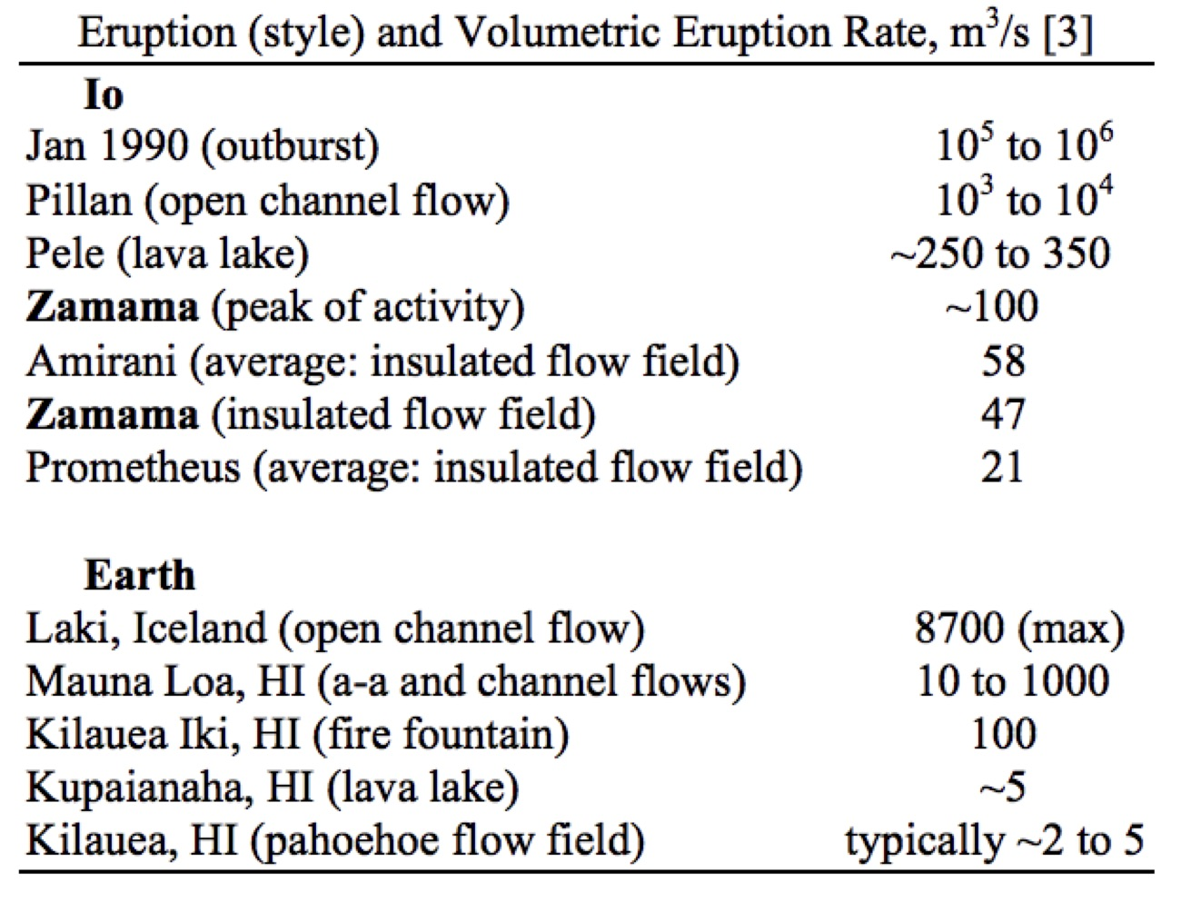 Eruption styles and volumetric eruption rates of Zamama, and comparison with terrestrial volcanoes.